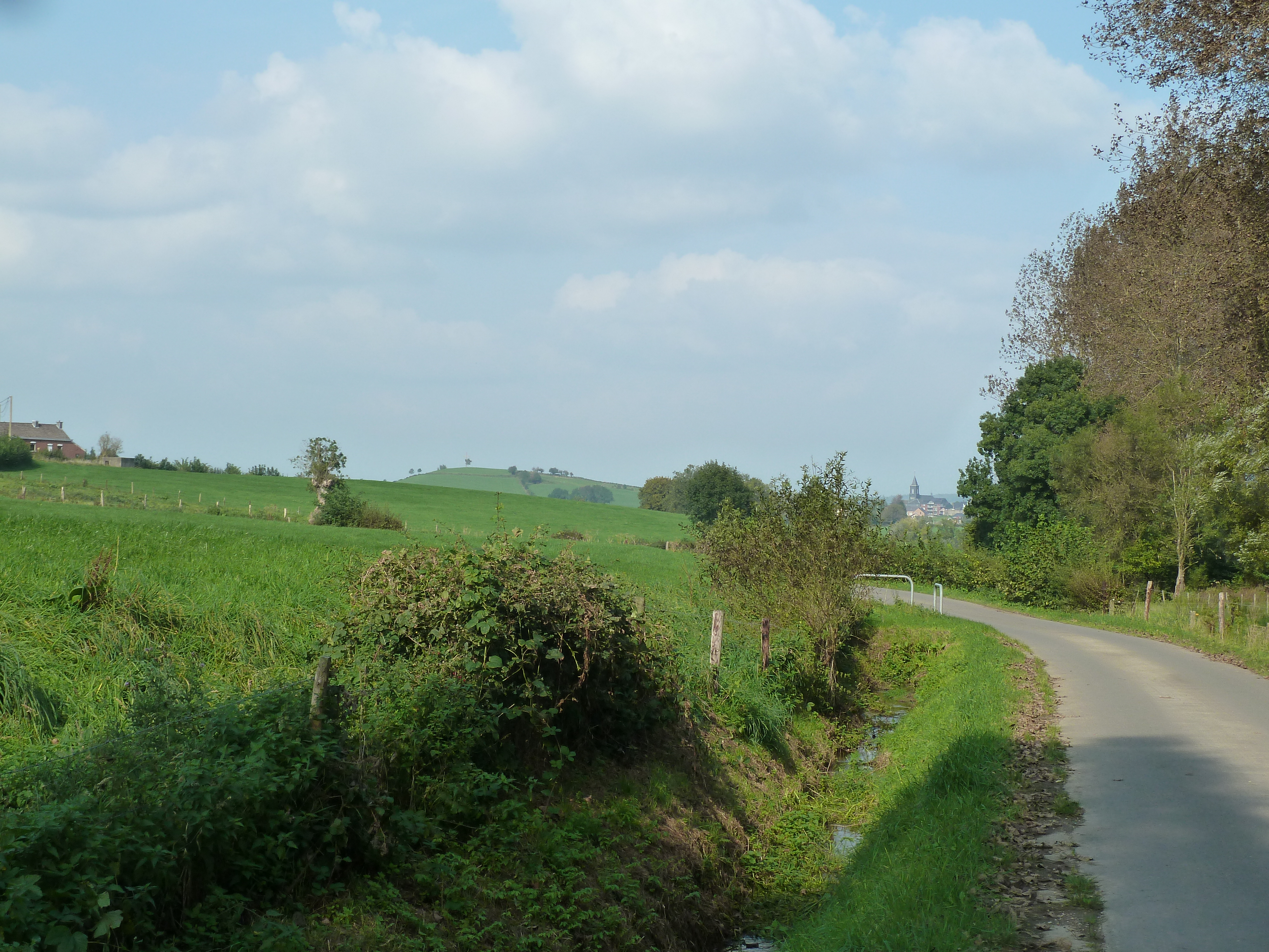 Schaesberg near Hombourg, Plombières, Belgium